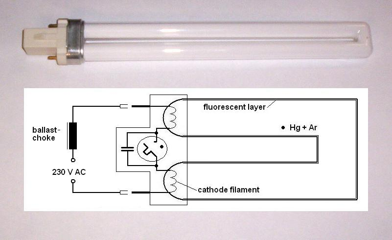 compact fluorescent lamp with integrated glow discharge starter. An external ballast choke (left) is necessary to run on mains supply